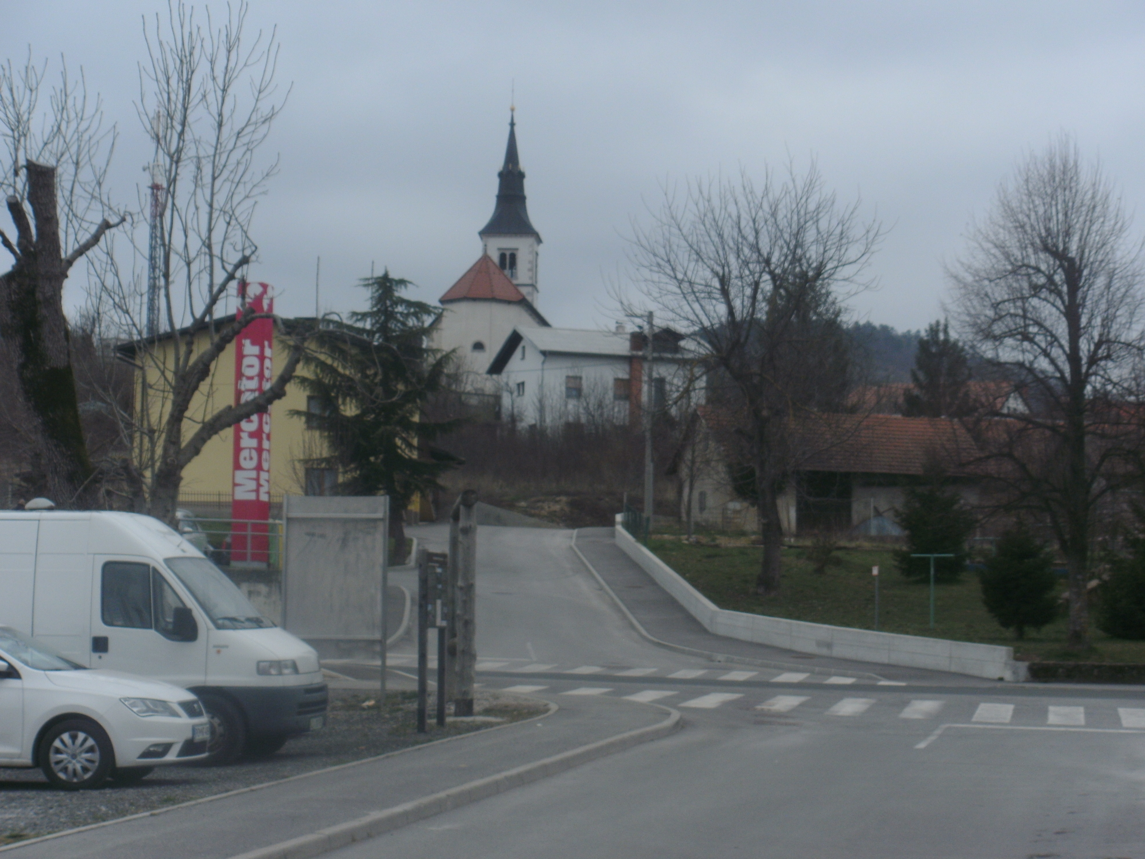 Pivka center with st. Peter church